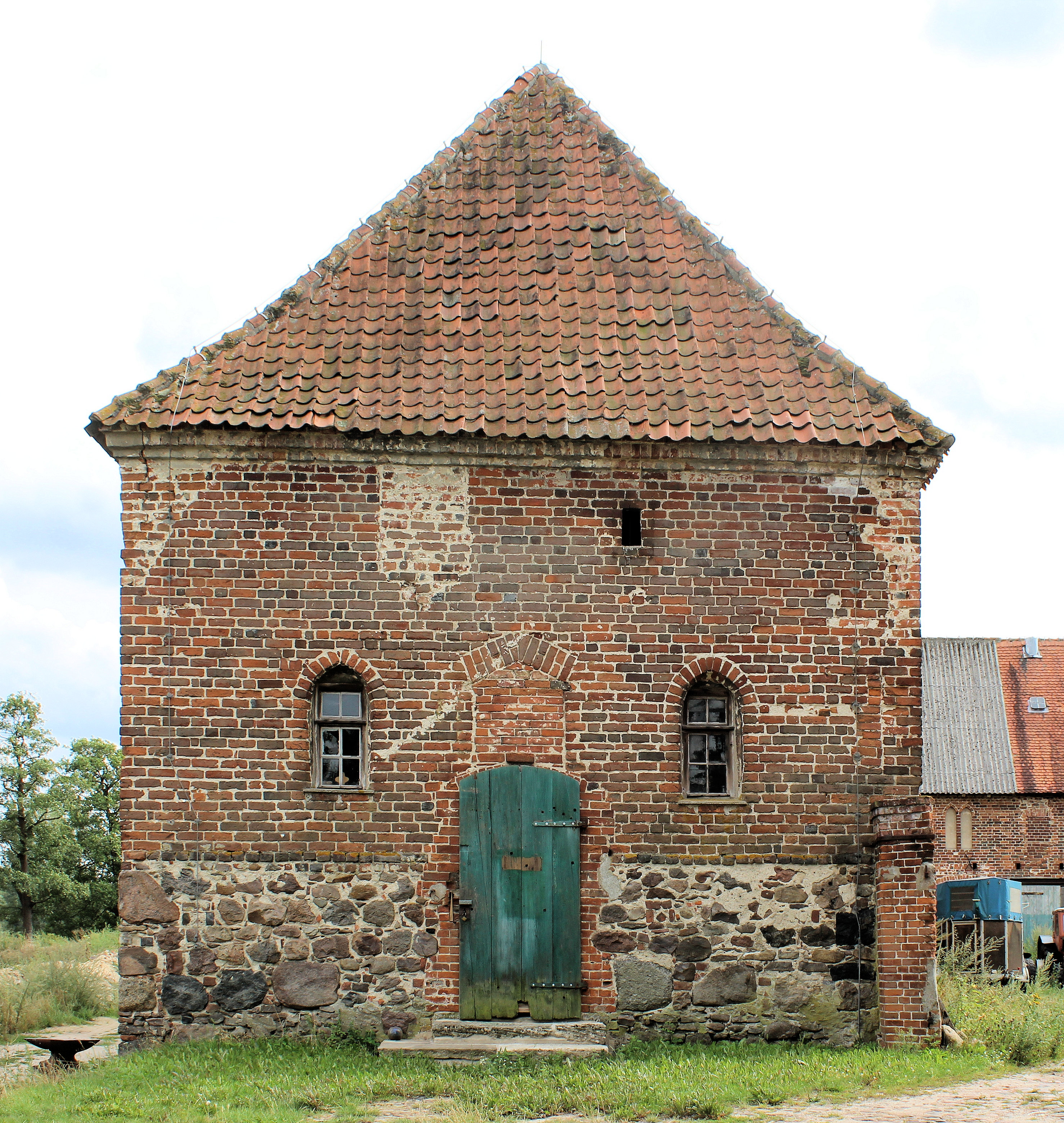 Dambeck (Salzwedel), monastery, the former hospital